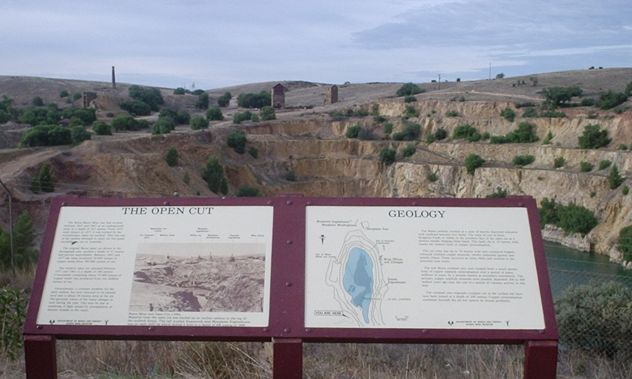 Created by Me (Peripitus)- 2006 Photo of Burra, South Australia, open cut copper mine pit , tourist sign and old mine buildings originally uploaded to wikipedia then re-uploaded here